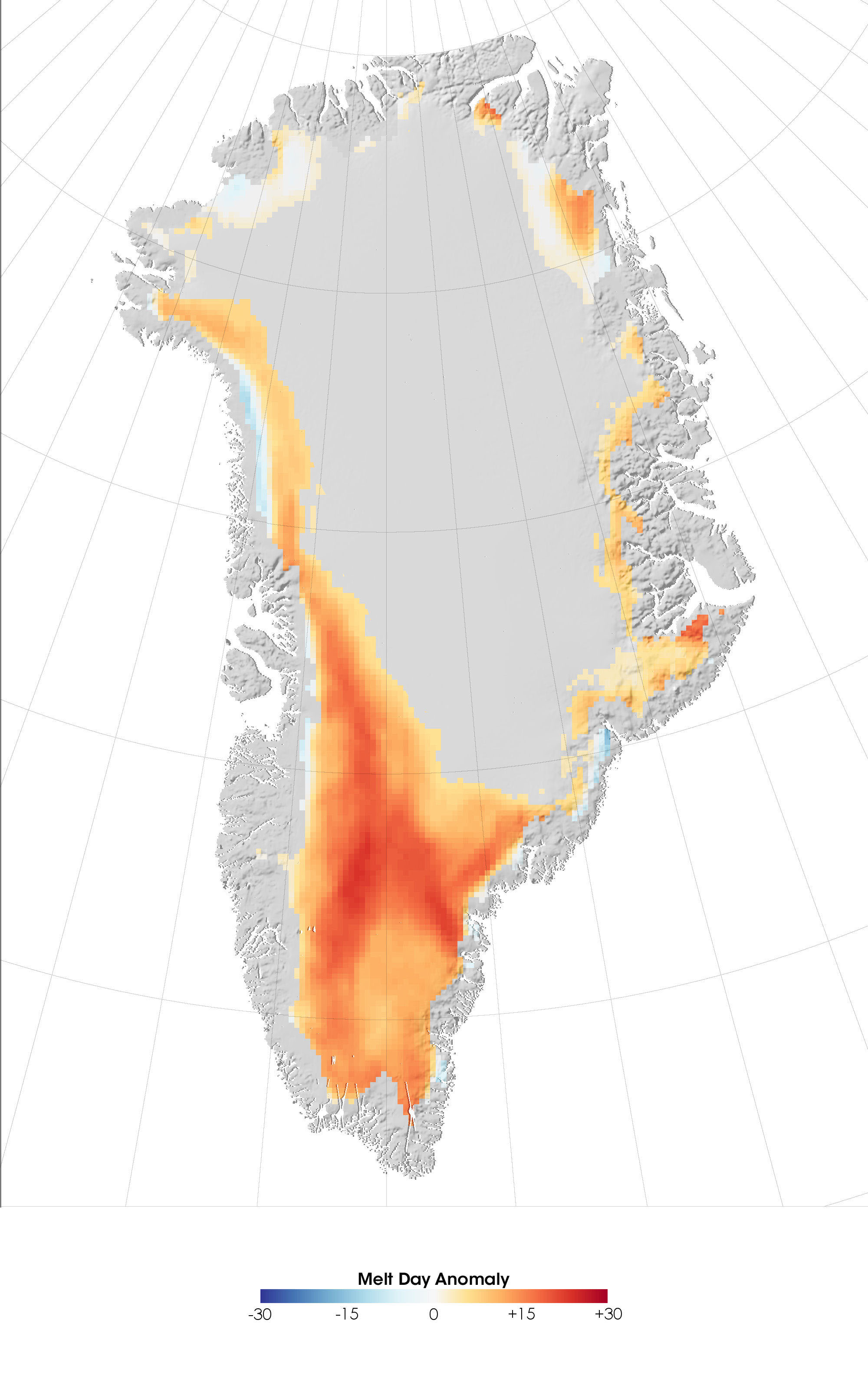 Greenland 2007 met anomaly